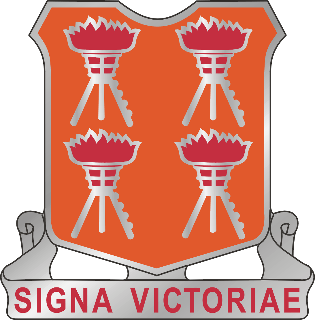 Logo of the 447th Signal Battalion.